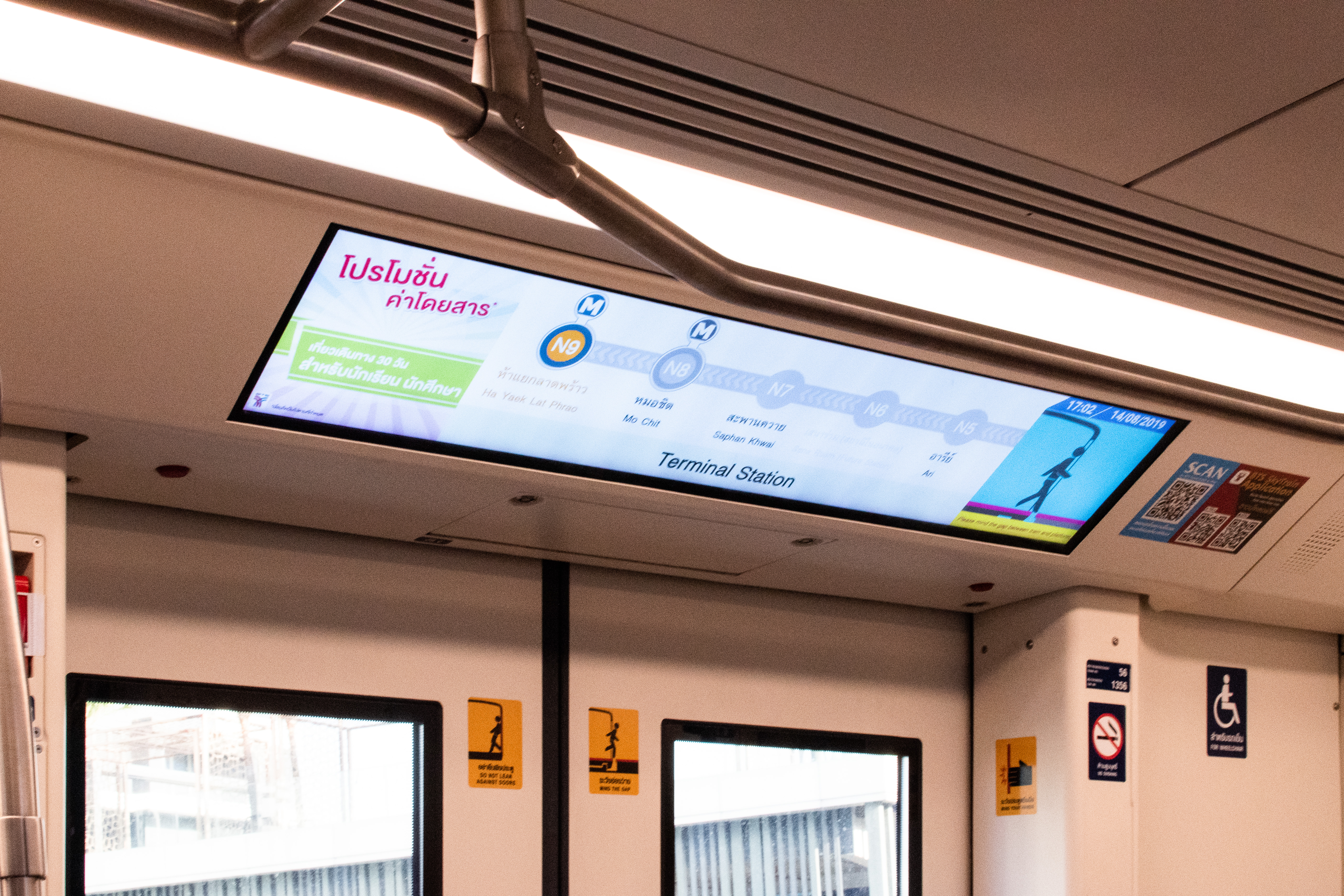 BTS EMU-B3's Dynamic Route Map